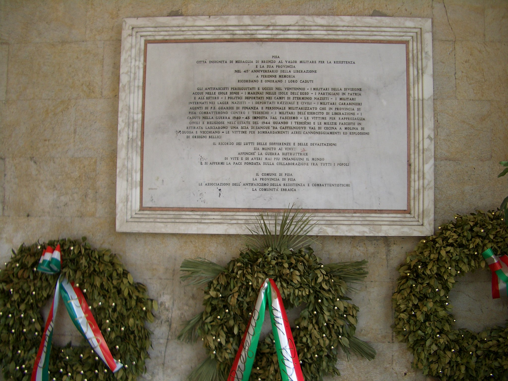 This memorial plaque in Pisa lists various categories of people who died during the period of fascism and World War II.